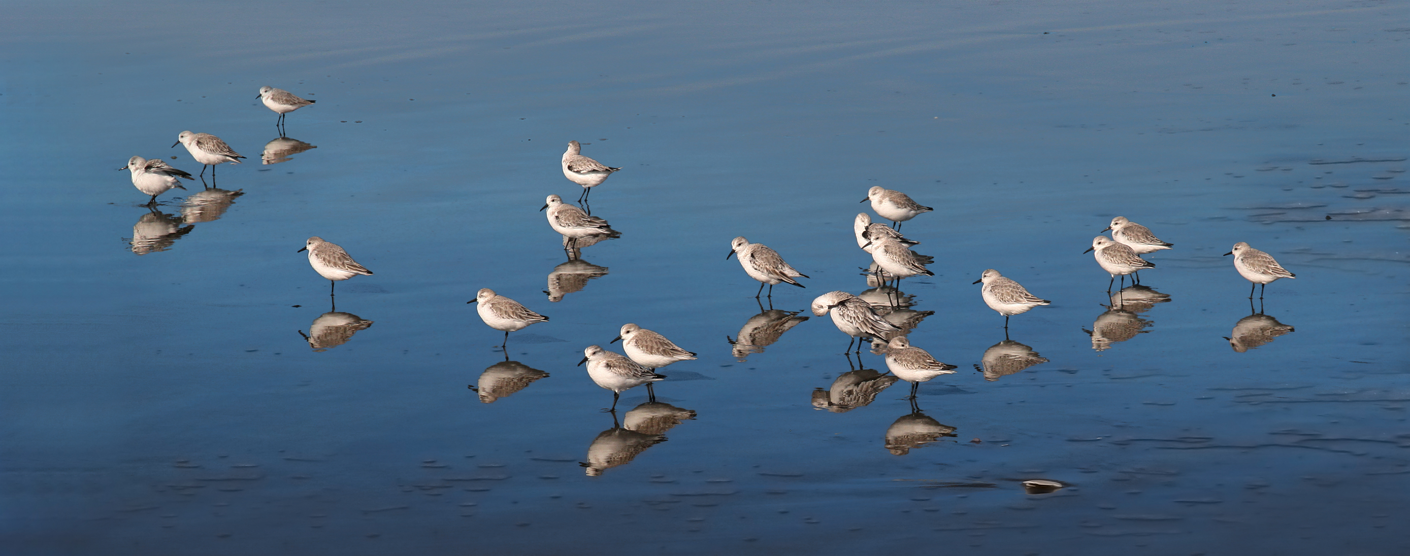 Sanderlings, Calidris alba at Ocean Beach